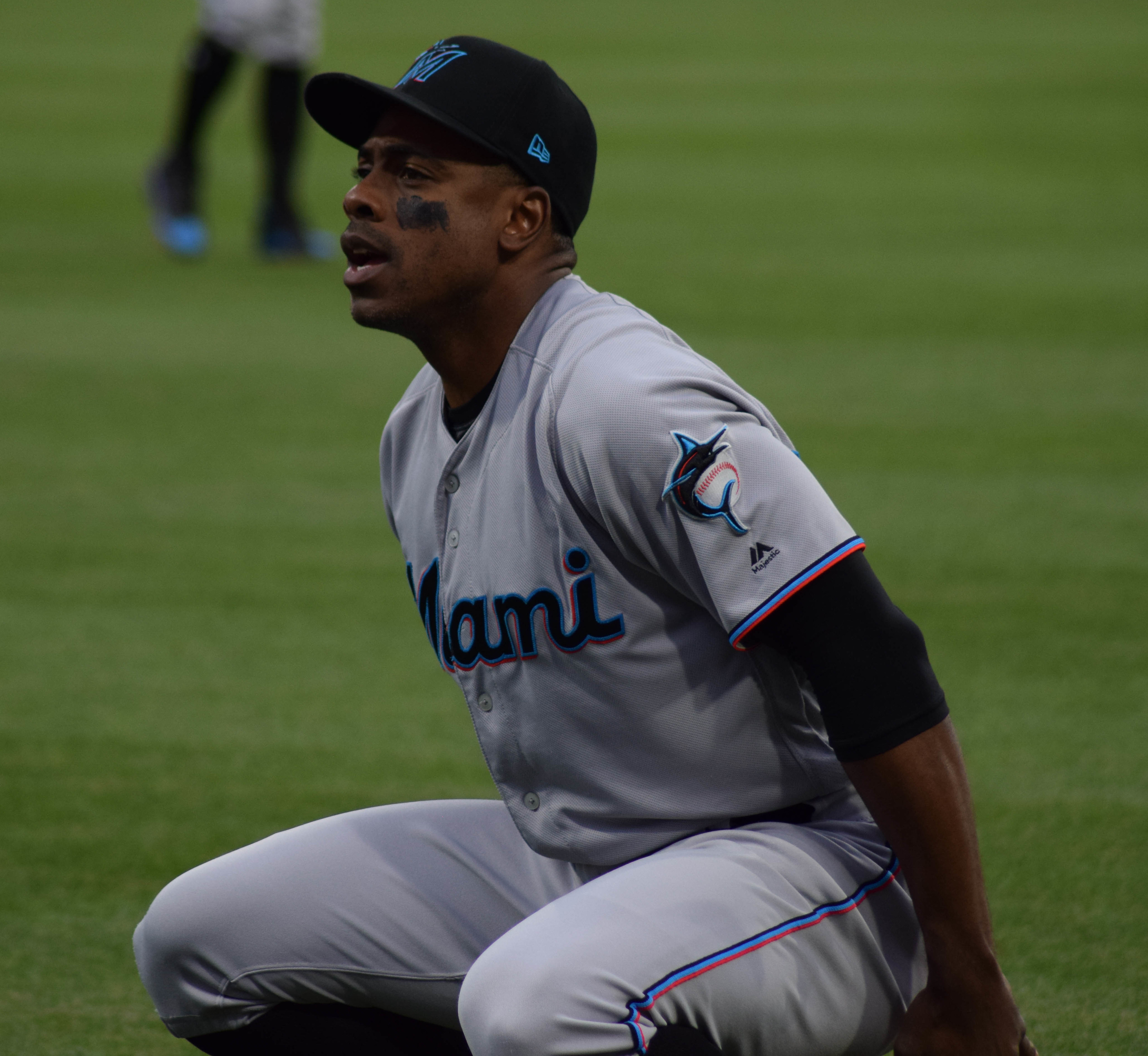 Curtis Granderson with the Miami Marlins at Citizens Bank Park in 2019